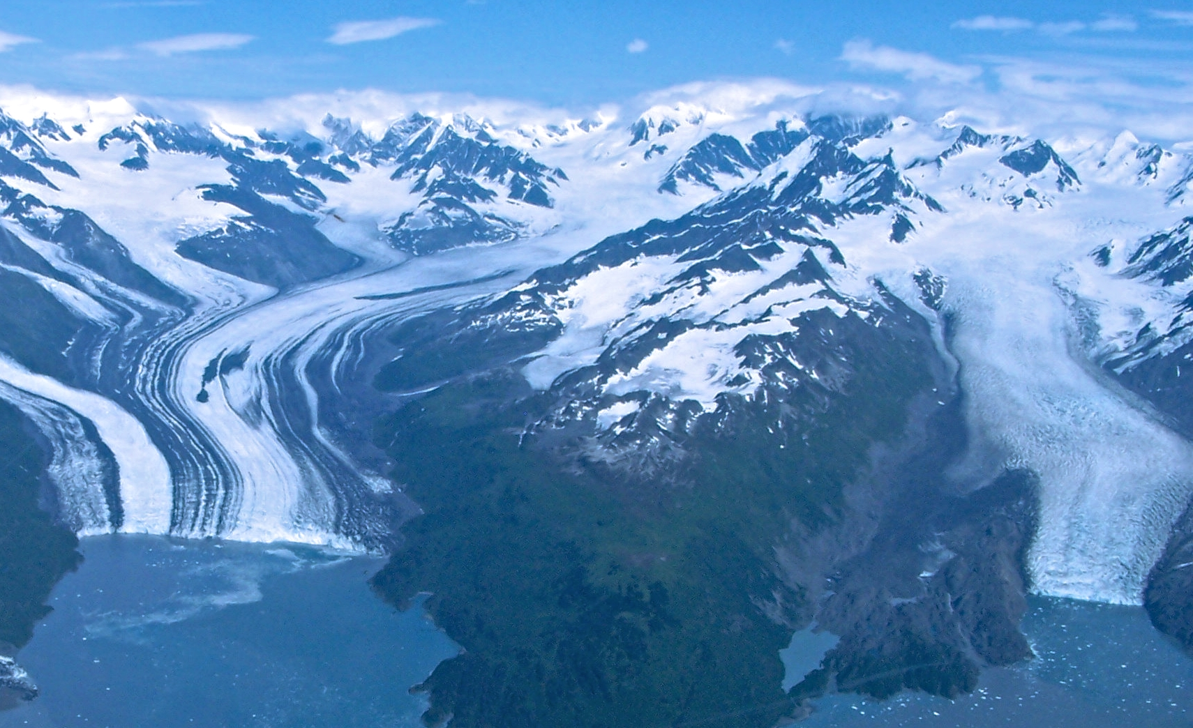 Aerial view of Harvard (left) and Yale Glaciers in Alaska